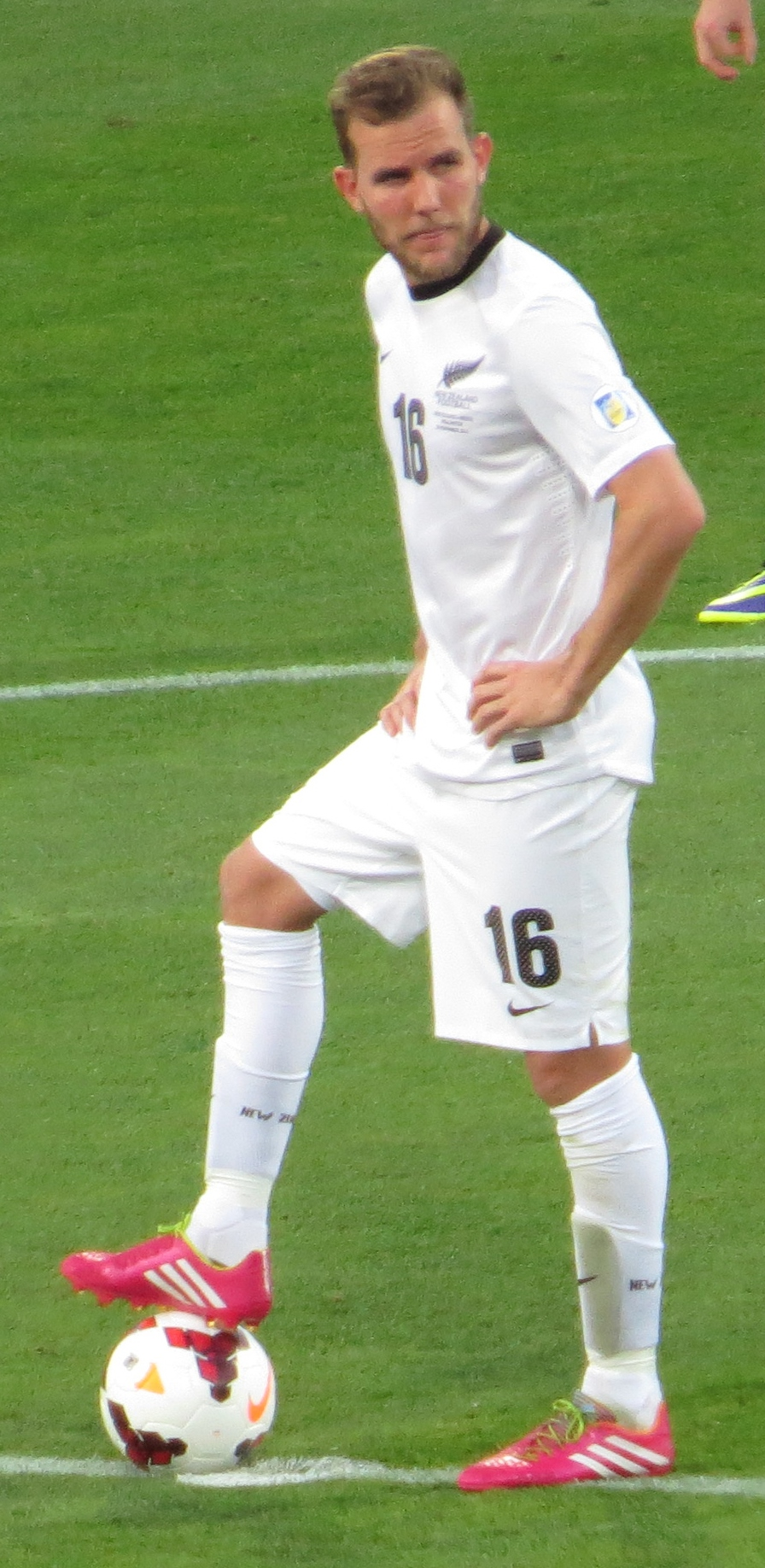 New Zealand All Whites forward Jeremy Brockie playing against Mexico in their 2014 World Cup Qualification match in November 2013.